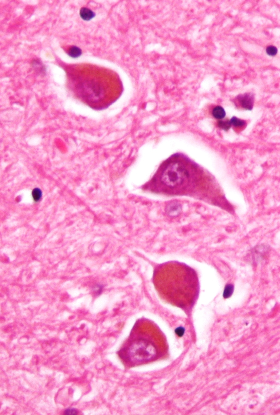 High magnification micrograph showing Alzheimer type II astrocytes. This is actually a micrograph of dying neurons, not astrocytes.